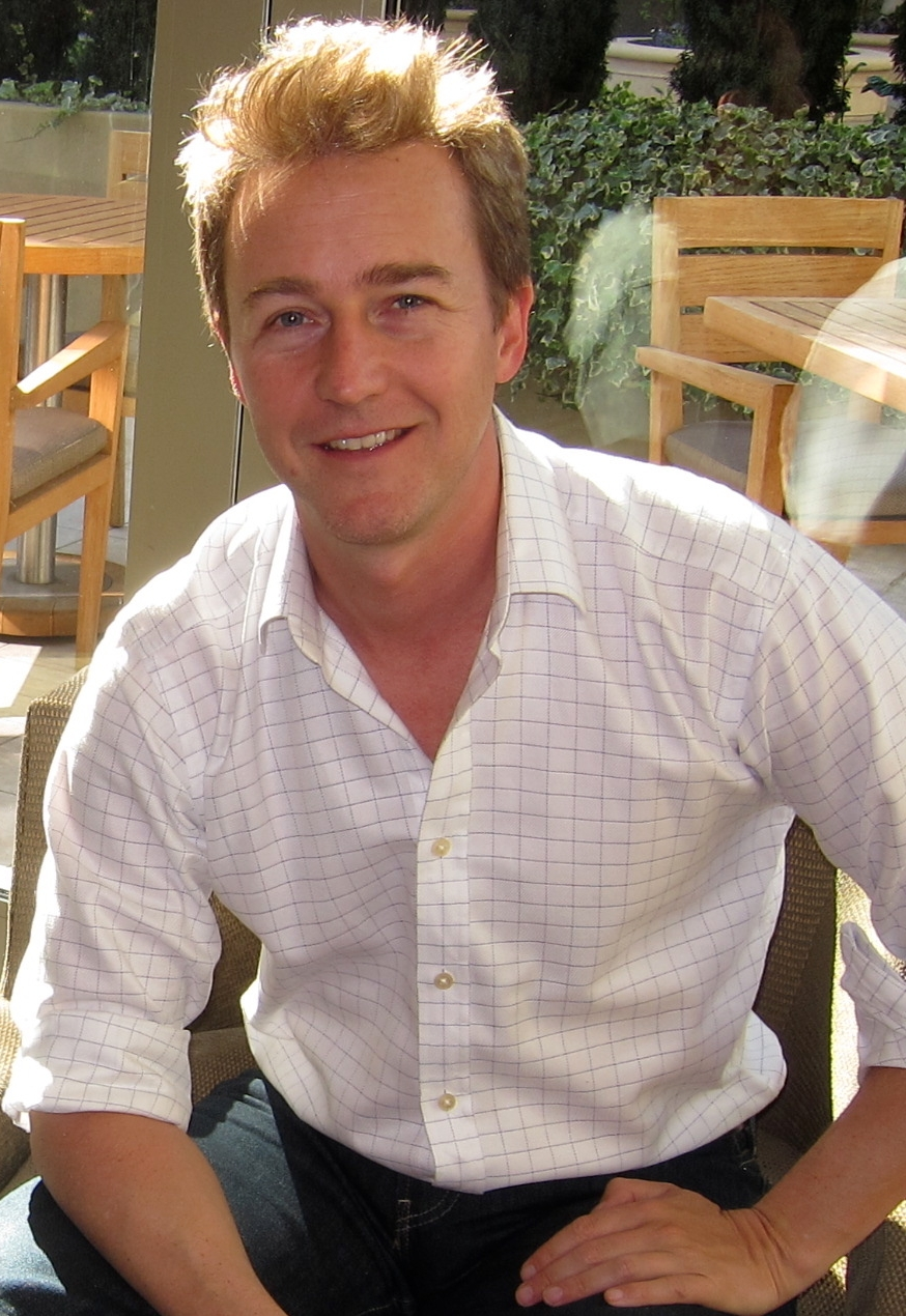 While he was down in the Valley. With just a touch of back-hair-lighting. Talking about conservation and entrepreneurship. And you can see his involvement in both at crowdrise… which sports the cool tagline: If you don’t give back no one will like you